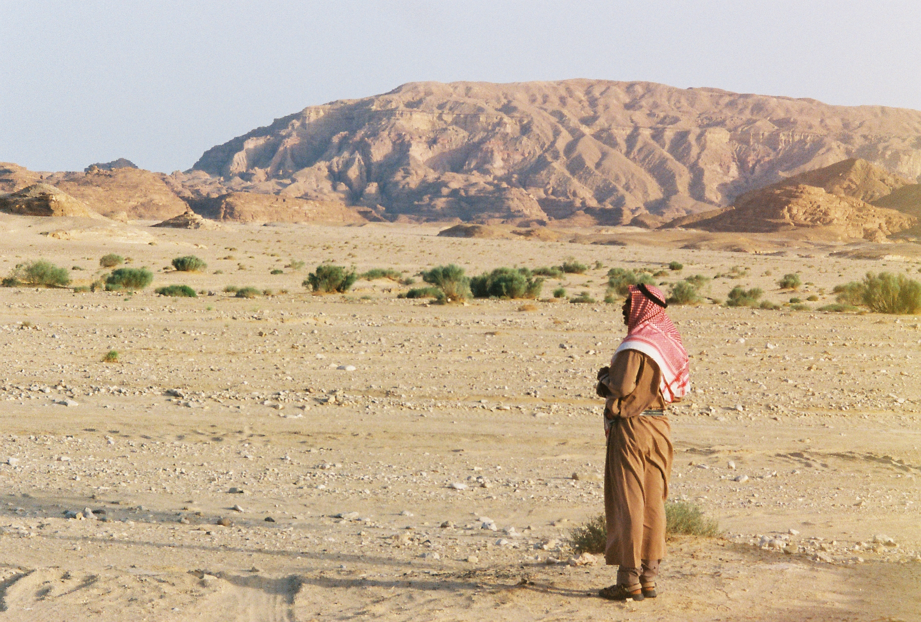 This is a photograph of an Egyptian Nomadic tribe leader (also commonly known as "Bwana"), who happens to be serving as a safari guide in this photograph. This photo was captured in the Sinai desert in 2008 on 35mm film using a "Nikon FM2 (SLR)" camera. This is an image with the theme "Africa on the Move or Transport" from: Egypt